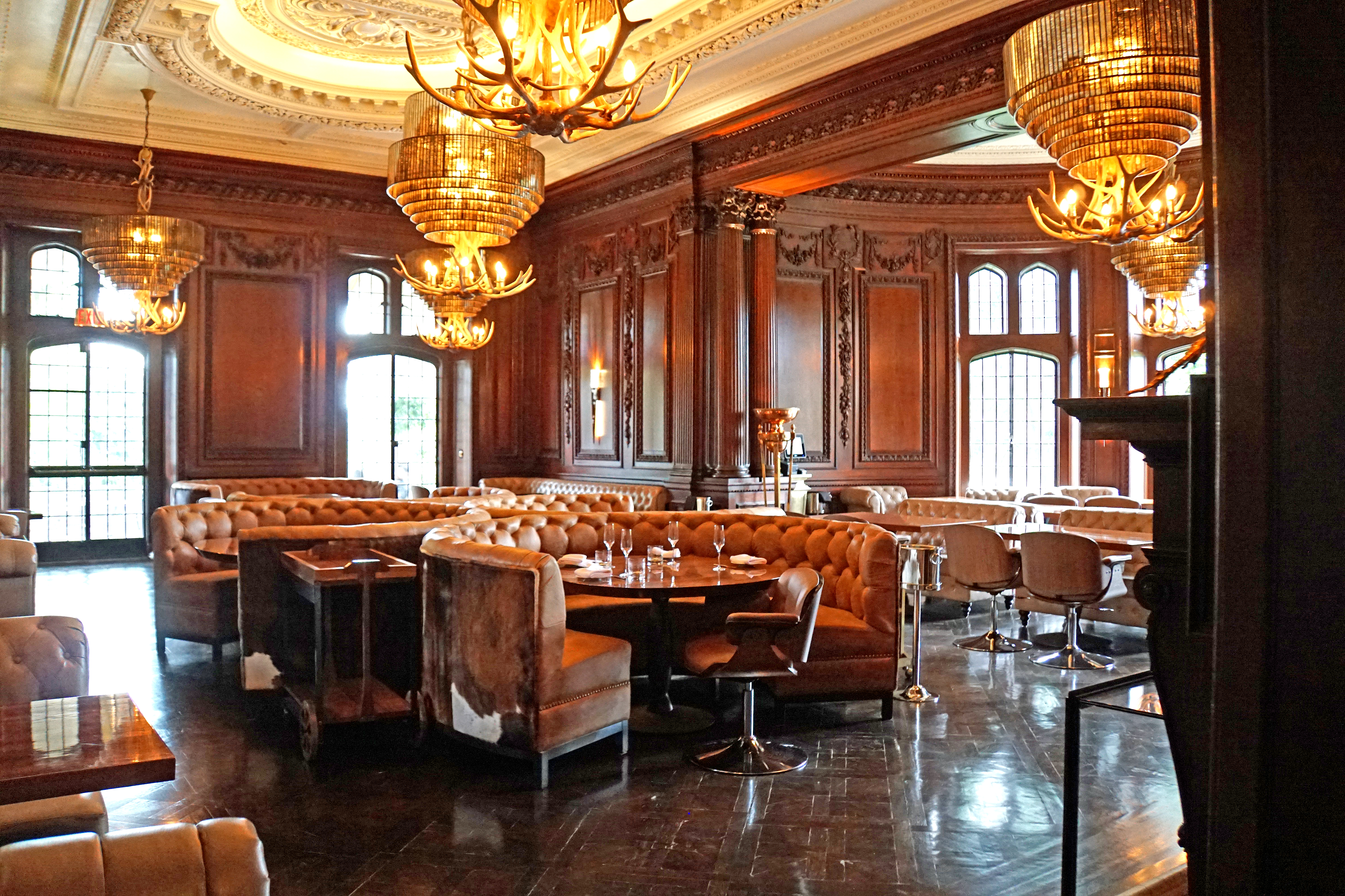 PLEASE, NO invitations or self promotions, THEY WILL BE DELETED. My photos are FREE to use, just give me credit and it would be nice if you let me know, thanks. The Oak Room is the most decorated room in the house, and was used for formal occasions. It is encased in wood panels which took three artisans three years to carve.